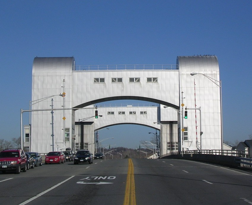 Green Island Bridge, which which carries traffic over the Hudson River and connects the city of Troy to the town and village of Green Island in New York, United States